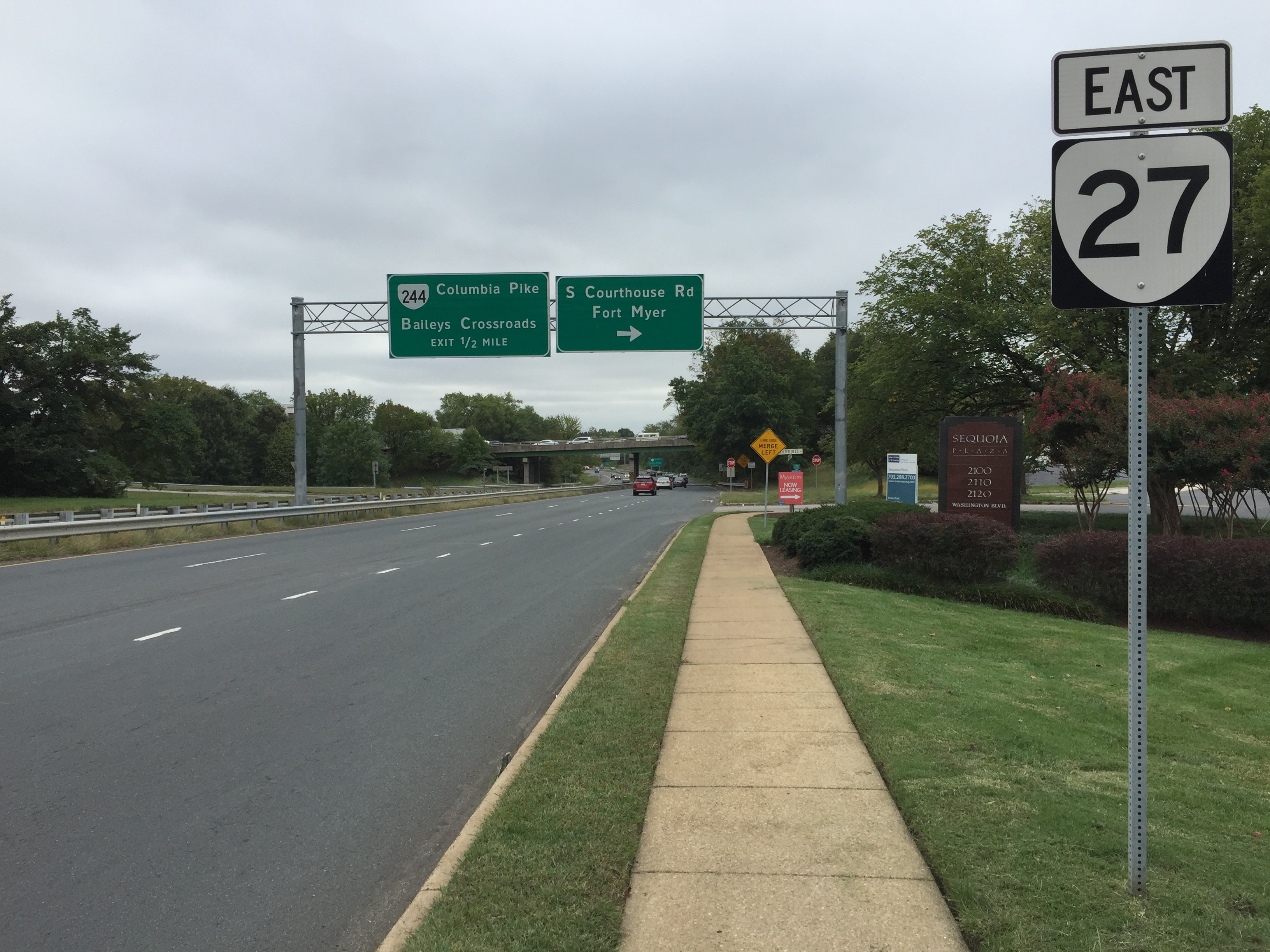 View east along Virginia State Route 27 (Washington Boulevard) between U.S. Route 50 (Arlington Boulevard) and Courthouse Road in Arlington County, Virginia